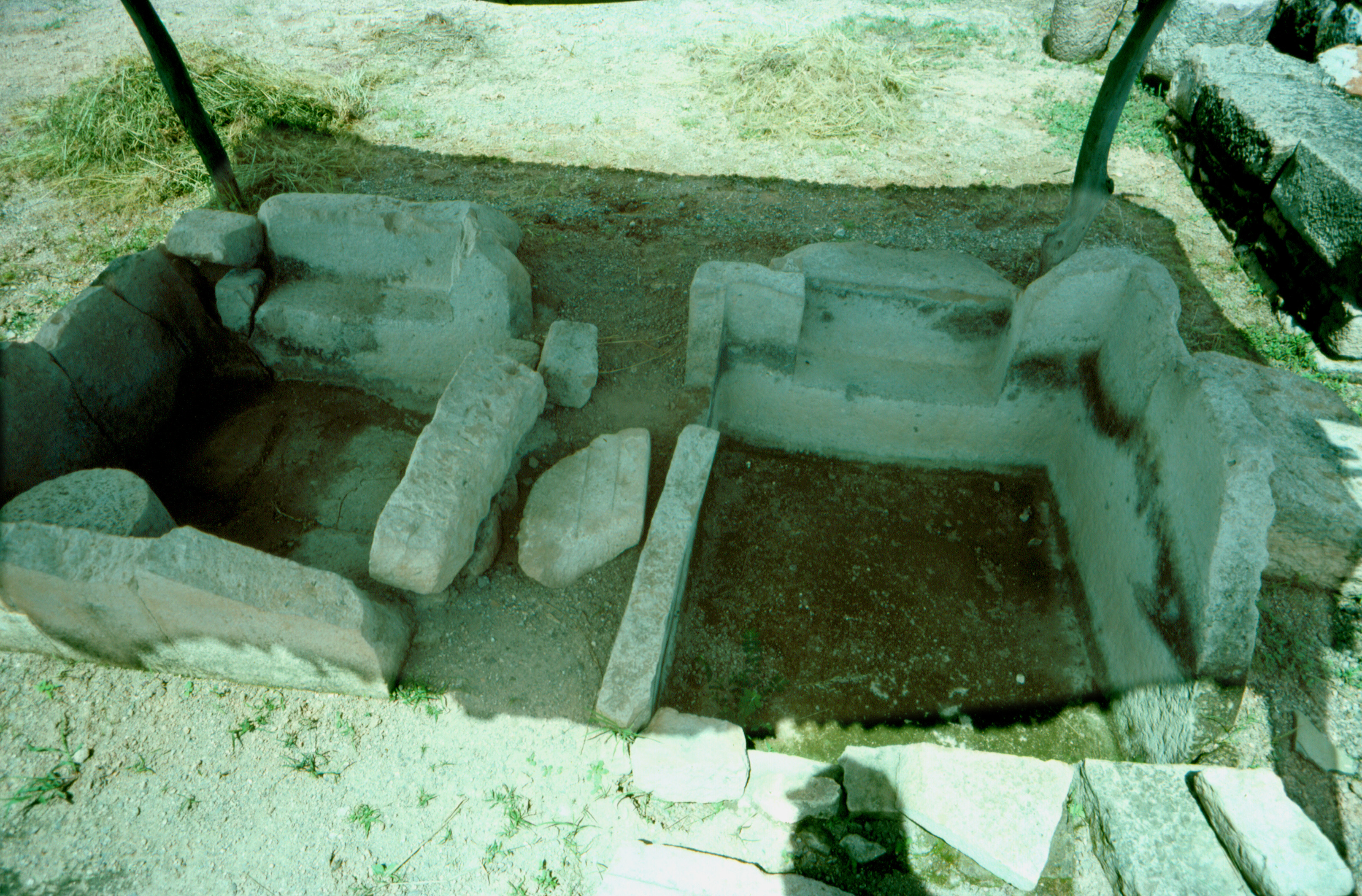 Cuetlajuchitlan, Guerrero, Mexico: monolithic basins.